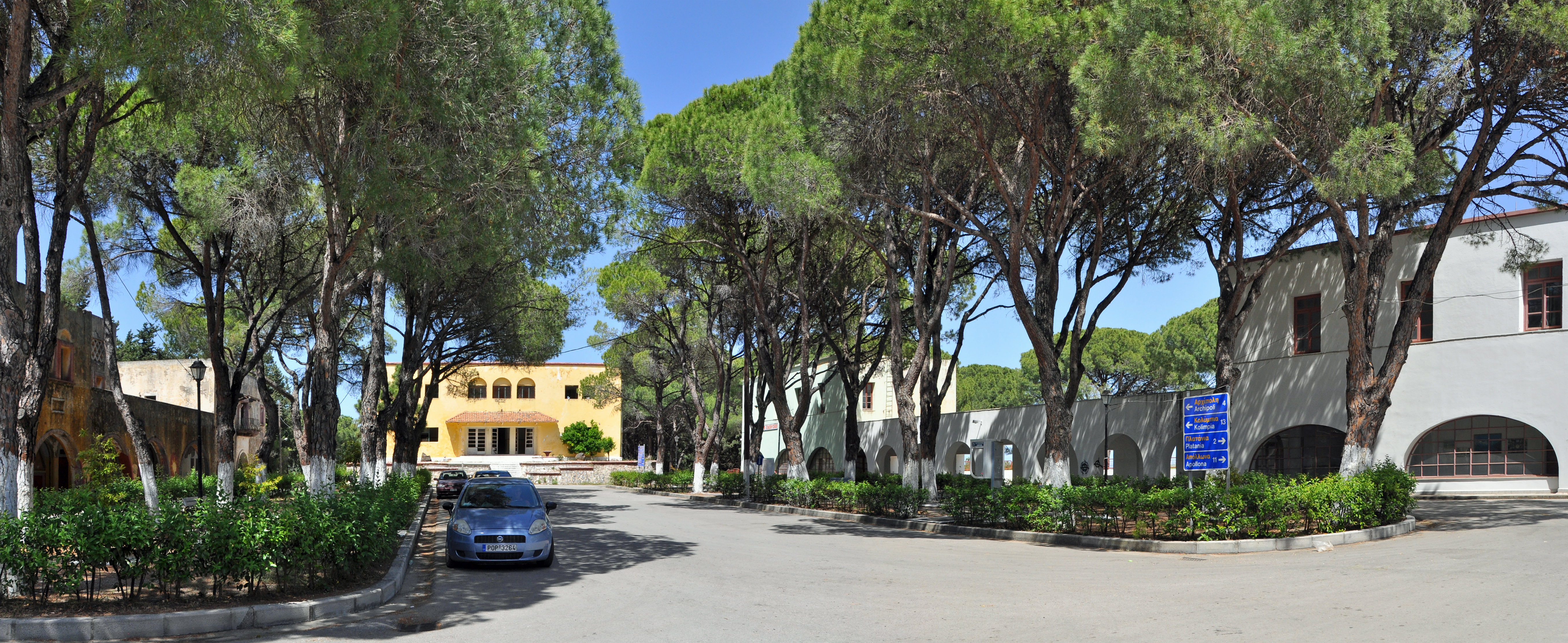 Eleousa (Rhodes, Greece): main square of the village, founded by the Italians in 1935 as Campochiaro